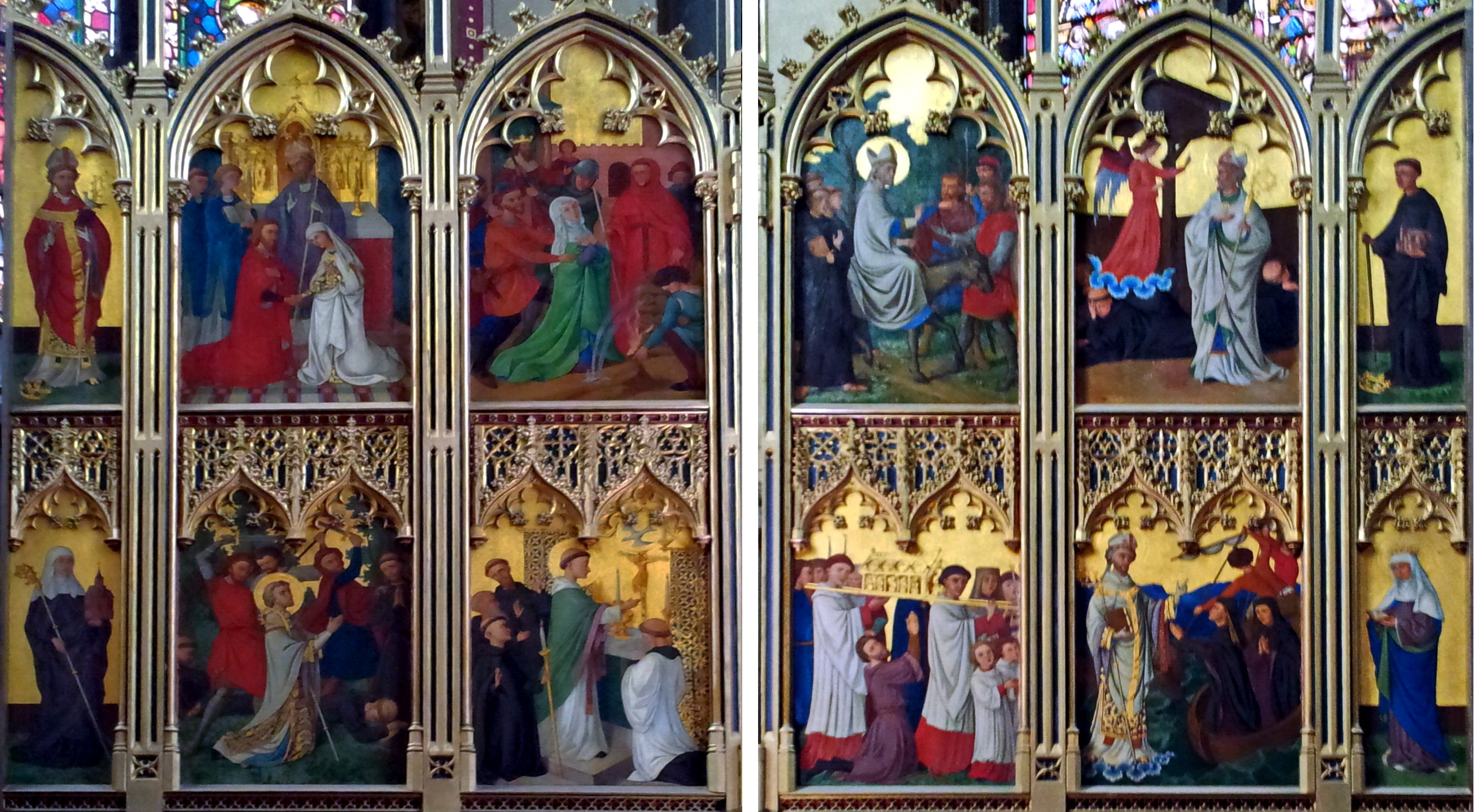 Two painted wings of a Gothic Revival reredo of the main altar in the Church of Saint Pholian in Liège, Belgium. The central part of the altar (not depicted here) consists of sculpted panels. The left and right wings were painted by the Liège artist and art historian Jules Helbig. The 8 central panel depict the life of Saint Pholian. This is a montage of two edited files previously uploaded to Wikimedia Commons by Kleon3: File:Liège, Église St-Pholien08.jpg File:Liège, Église St-Pholien10.jpg